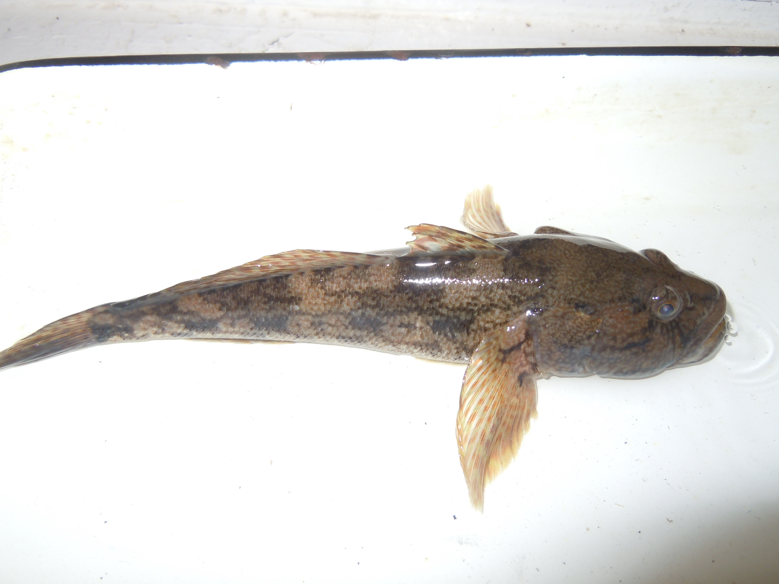 Gorlap goby (Ponticola gorlap) from the northern Caspian Sea